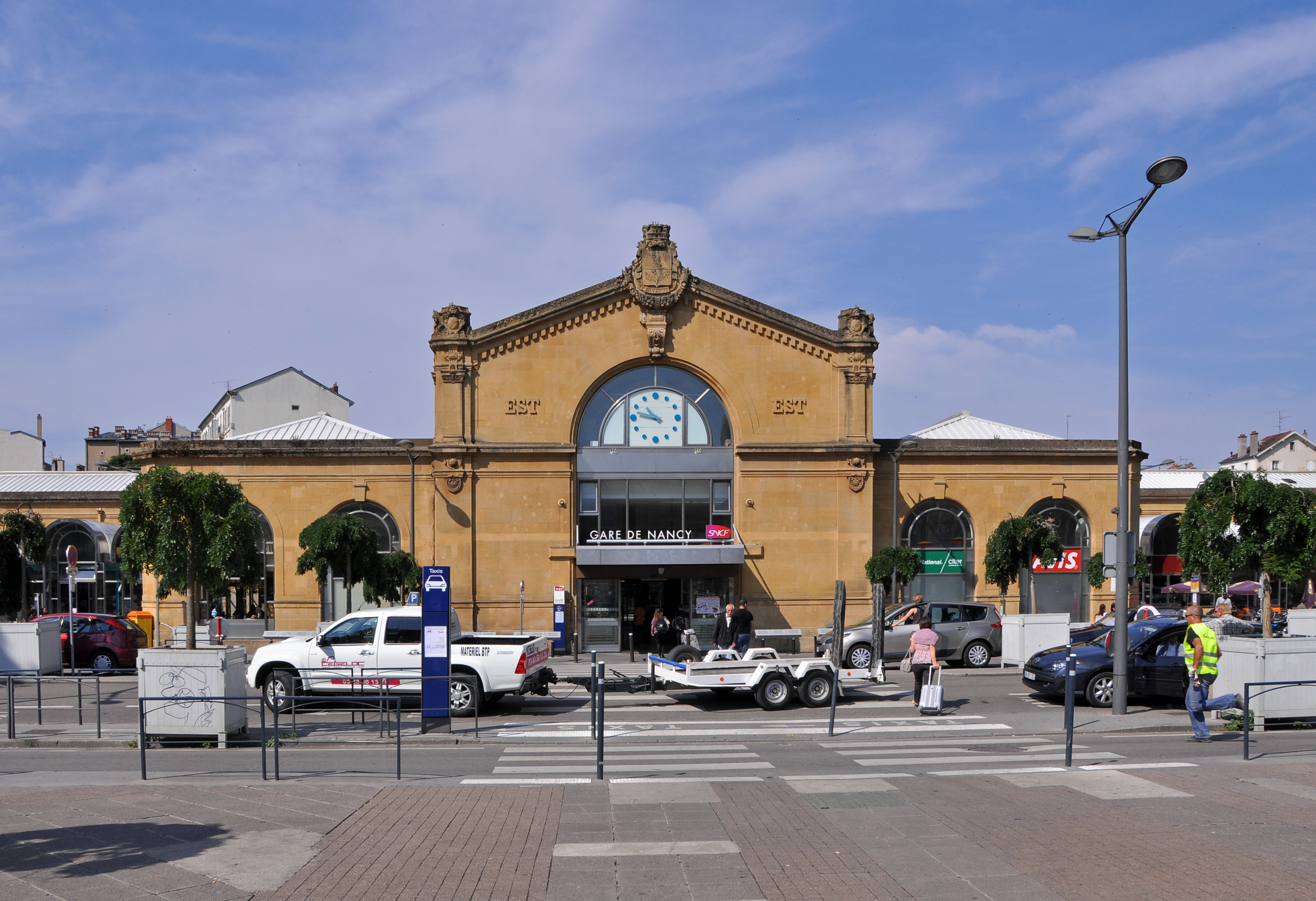 Nancy (France): train station